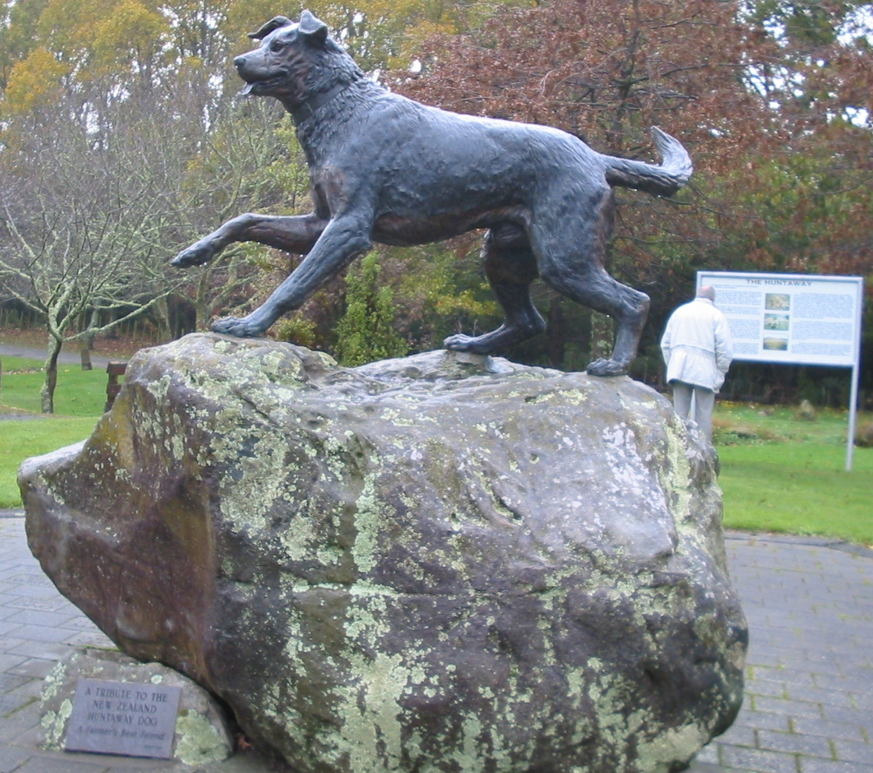 Statue commemorating Huntaway dogs, Hunterville, New Zealand